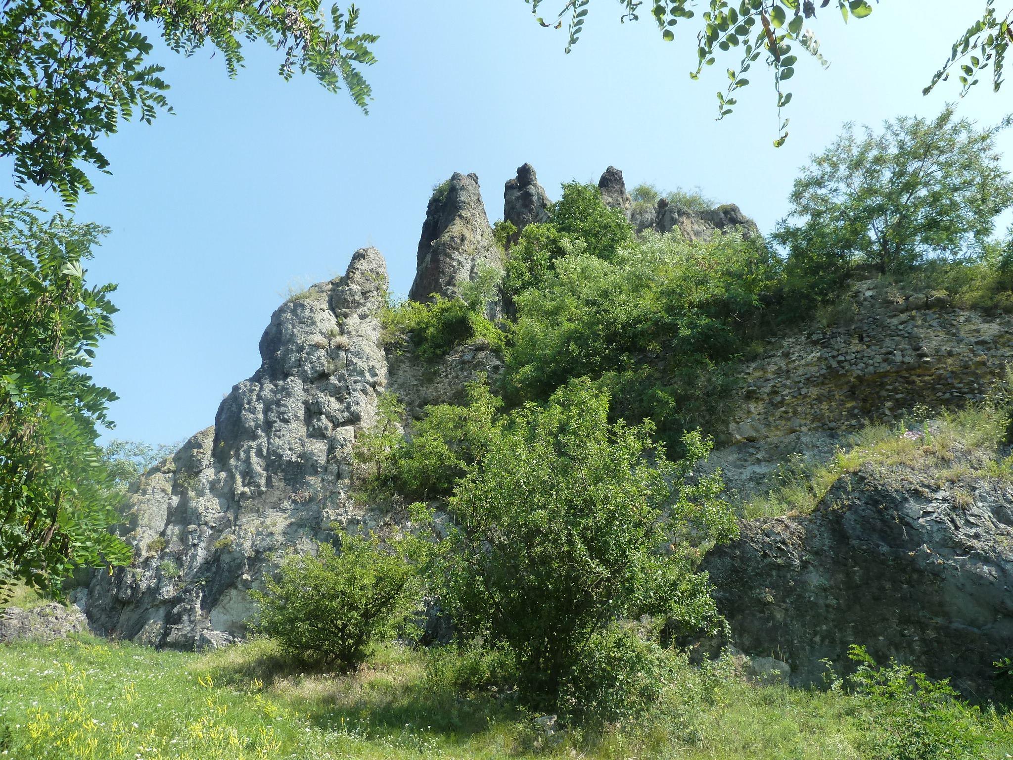 Ruins of Hajnačka castle.